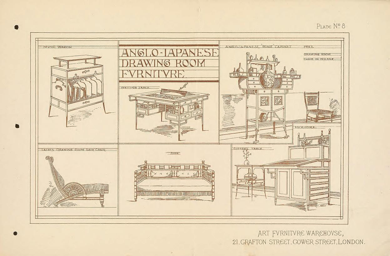 Art furniture from designs by E.W. Godwin, domestic interior Anglo-Japanese furniture design